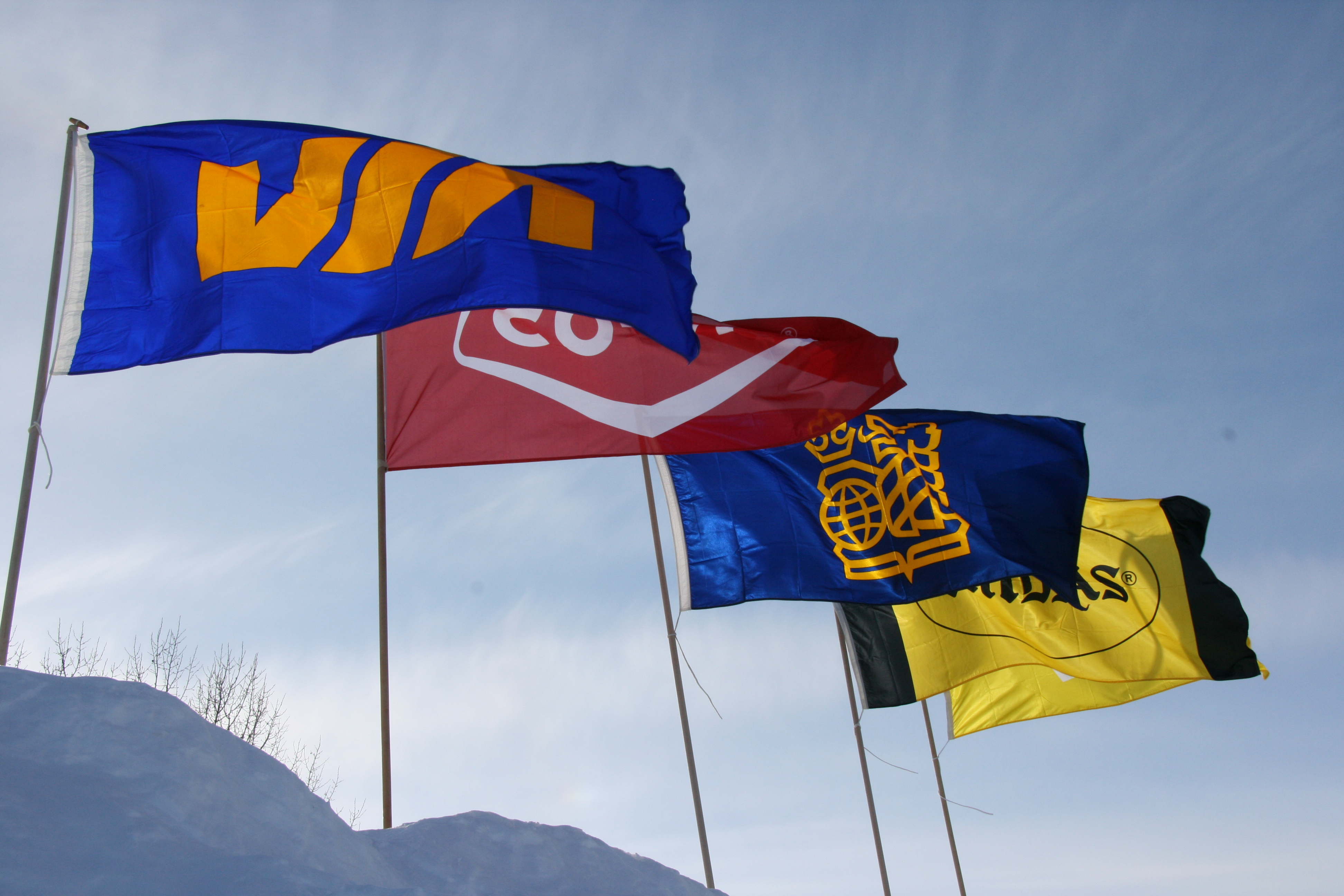 Corporate flags of the famous Canadian Flag Collection, in Settlers, Rails & Trails Inc (museum) Argyle, Manitoba, Canada